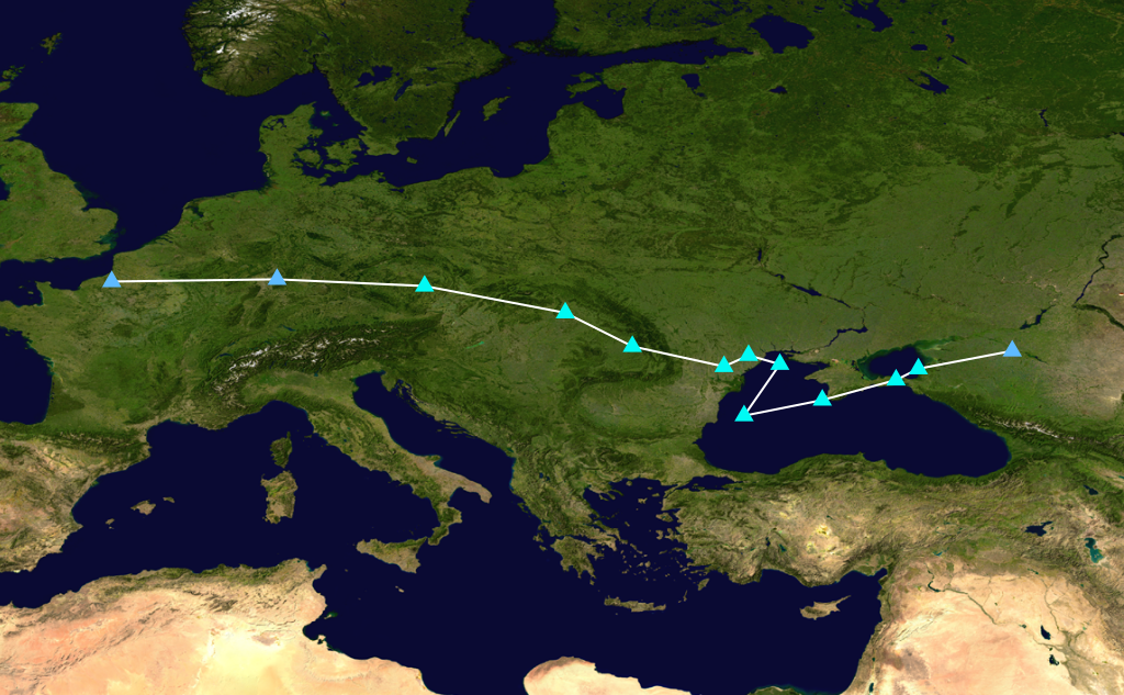 Track map of Storm Herve of the 2019-20 European windstorm season. The points show the location of the storm at 6-hour intervals. The colour represents the storm's maximum sustained wind speeds as classified in the Saffir–Simpson scale (see below), and the shape of the data points represent the nature of the storm, according to the legend below. Saffir–Simpson scale Tropical depression≤38 mph≤62 km/h Category 3111–129 mph178–208 km/h Tropical storm39–73 mph63–118 km/h Category 4130–156 mph209–251 km/h Category 174–95 mph119–153 km/h Category 5≥157 mph≥252 km/h Category 296–110 mph154–177 km/h Unknown Storm type Tropical cyclone Subtropical cyclone Extratropical cyclone / Remnant low / Tropical disturbance / Monsoon depression